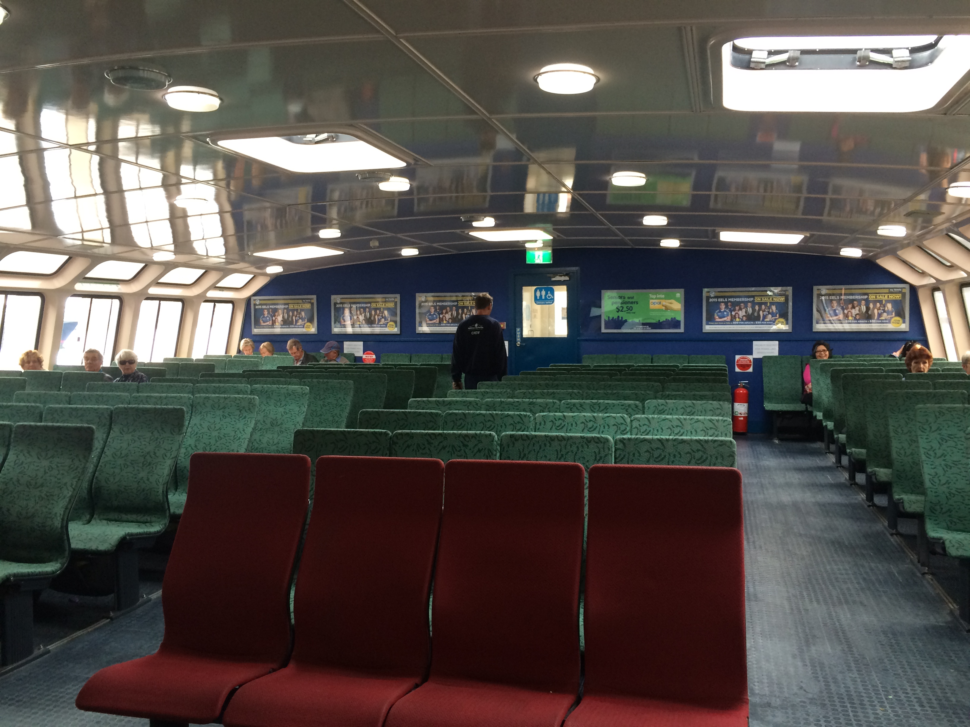 A view inside a Rivercat class ferry, looking towards the stern. The Rivercat class ferries were introduced into the Sydney Ferries network in the early 90s, serving F3 Parramatta River routes. Advertisement boards, such as the ones in the image advertising Parramatta Eels membership, are located at the back and front of the room. Each Rivercat class ferry can hold 164 passengers seated.